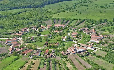 Charlotenburg, the only circle-shaped village in the Banat, Romania